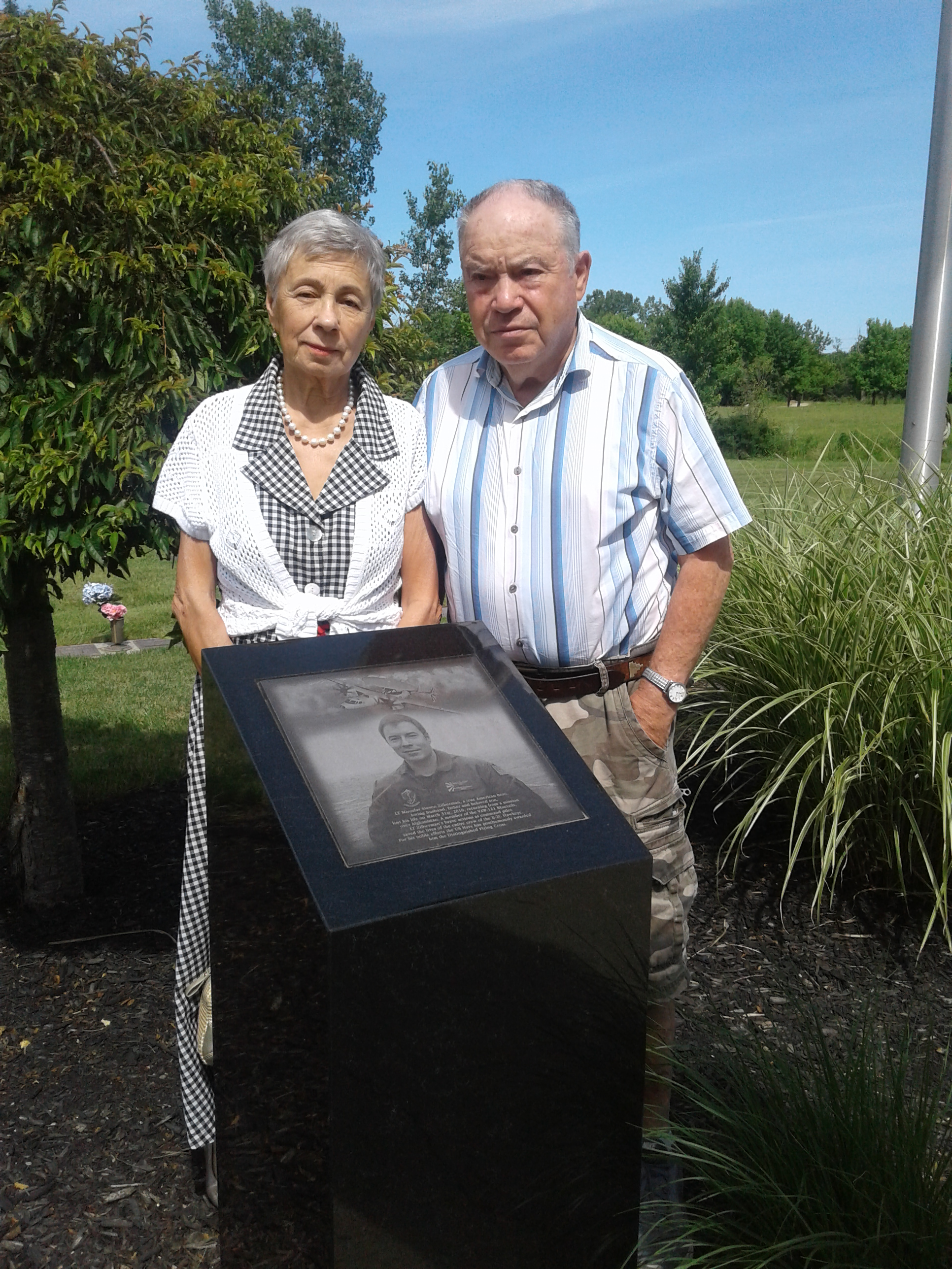 Parents of Miroslav Zilberman, Anna Sokolov and Boris Zilberman, near the Monument of Lt. Zilberman, Memorial Military Complex at Forest Lawn Memorial Gardens, Columbus, OH, USA Inscription:"Miroslav Steven Zilberman, a true American hero, loving hasband, father and beloved son, lost his life on March 31st, 2010, returning from a mission over Afganistan. A member of VAW-121 Bluetails, Lt.Zilberman's brave action as command pilot saved the lives of the entire crew of the E-2C Hawkeye. For his noble effort the US Navi has posthumously awarded him the Distinguished Flaying Cross."